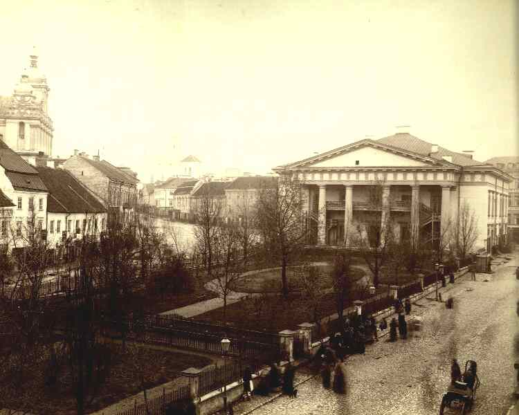 Vilnius city hall and square 1873-1881